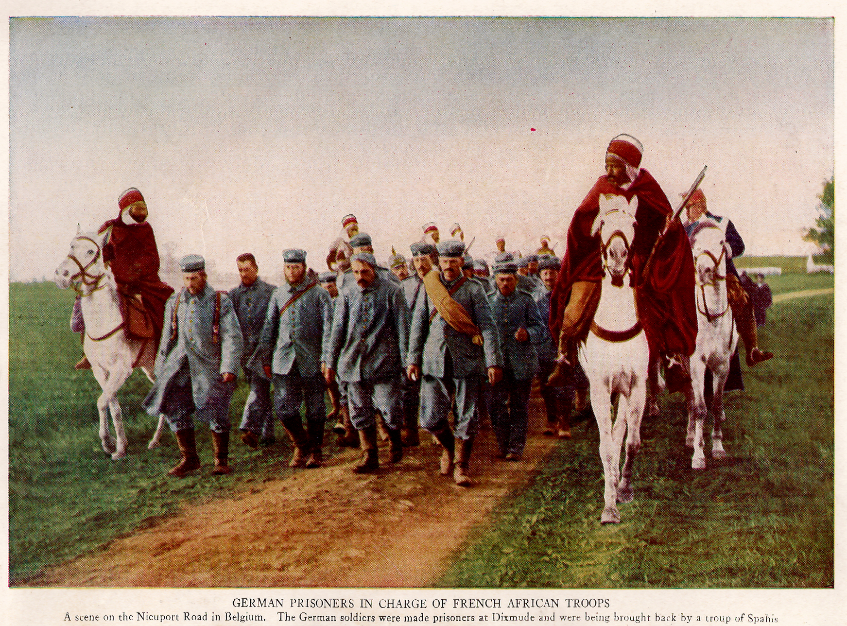 From book: German prisoners in charge of french african troops. A scene on the Nieuport Road in Belgium. The German soldiers were made prioners at Dixmude and were being brought back by a troup of Spahis.